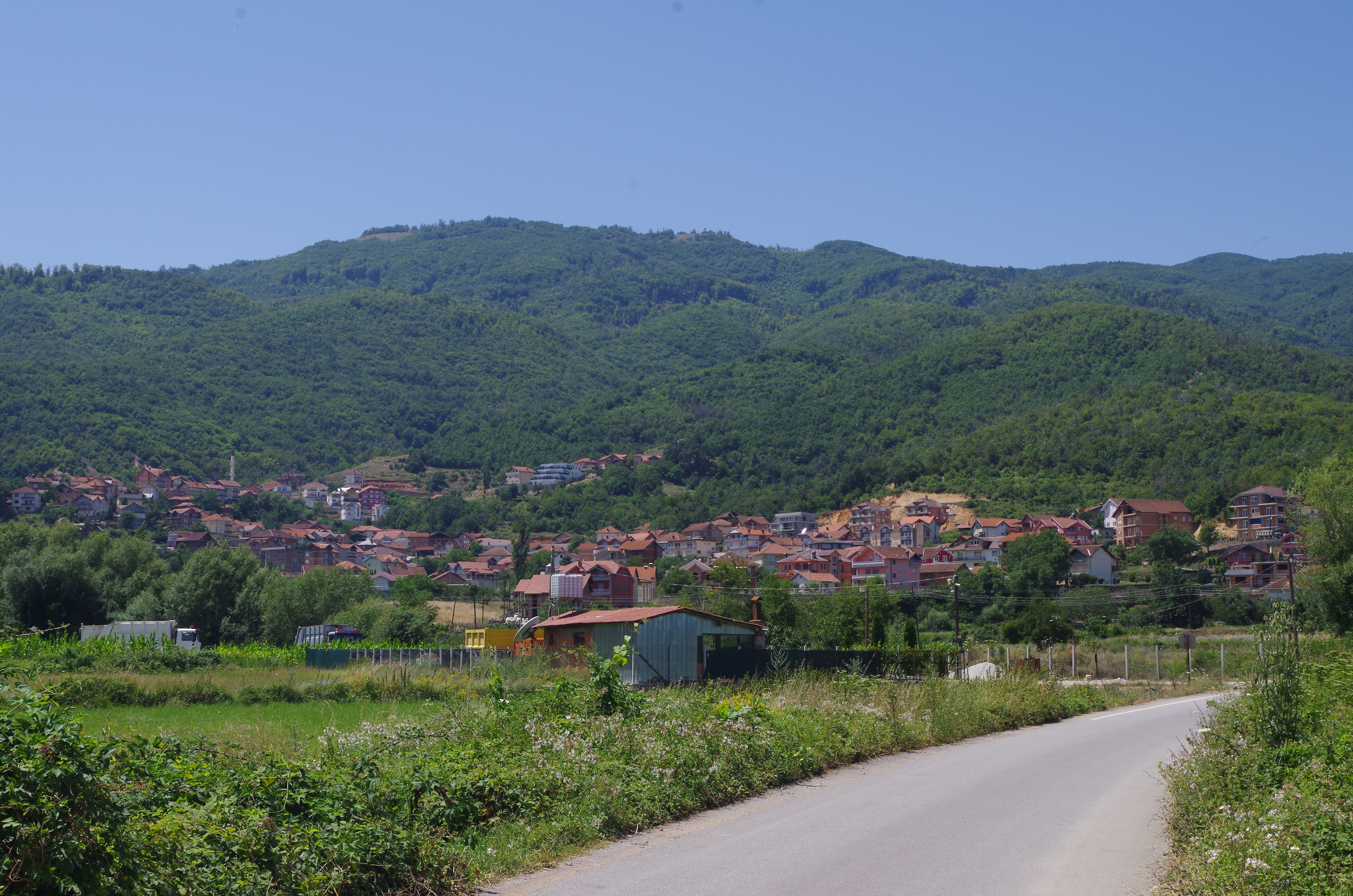 Panoramic view of the village of Frangovo